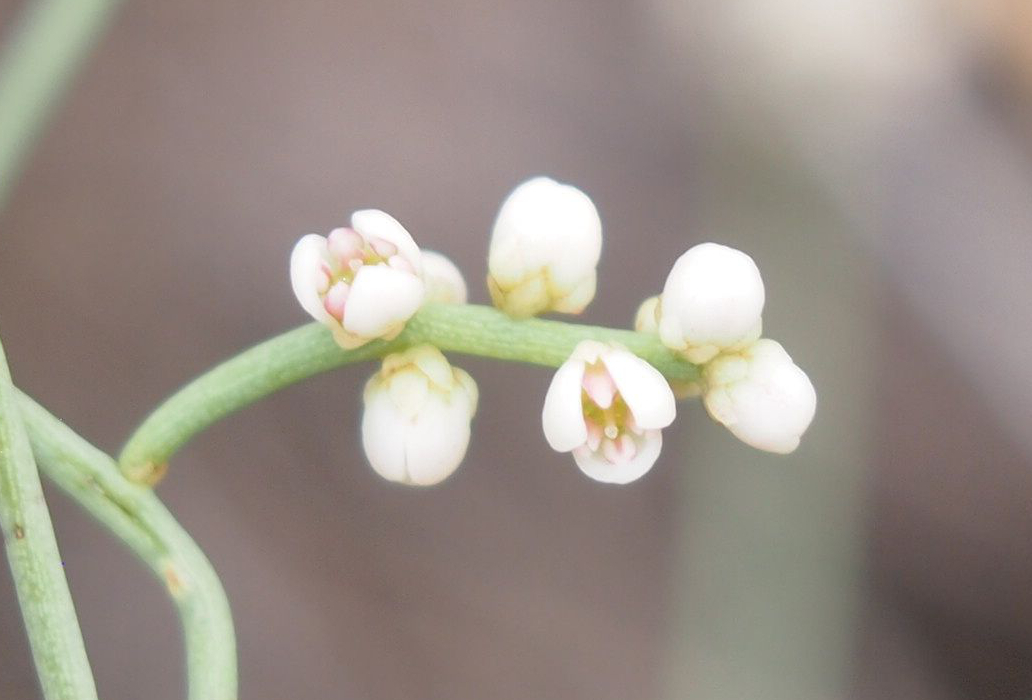 Cassytha filiformis flowers